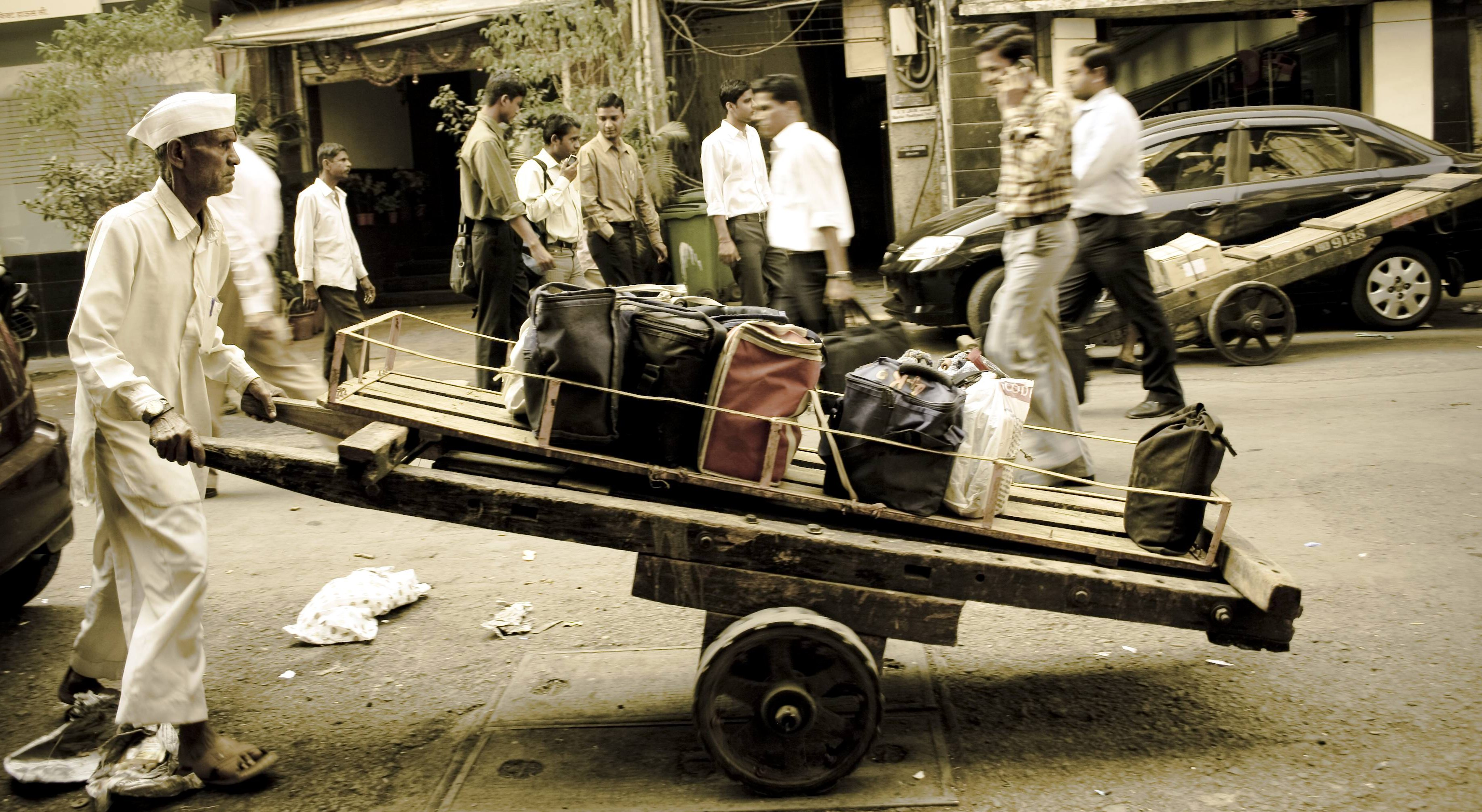 A dabbawala (literally, one who carries a box), also spelled as dabbawalla or dabbawallah is a person in the Indian city of Mumbai who is employed in a unique service industry whose primary business is collecting the freshly cooked food in lunch boxes from the residences of the office workers (mostly in the suburbs), delivering it to their respective workplaces and returning back the empty boxes by using various modes of transport. (wiki) other mumbai fotos